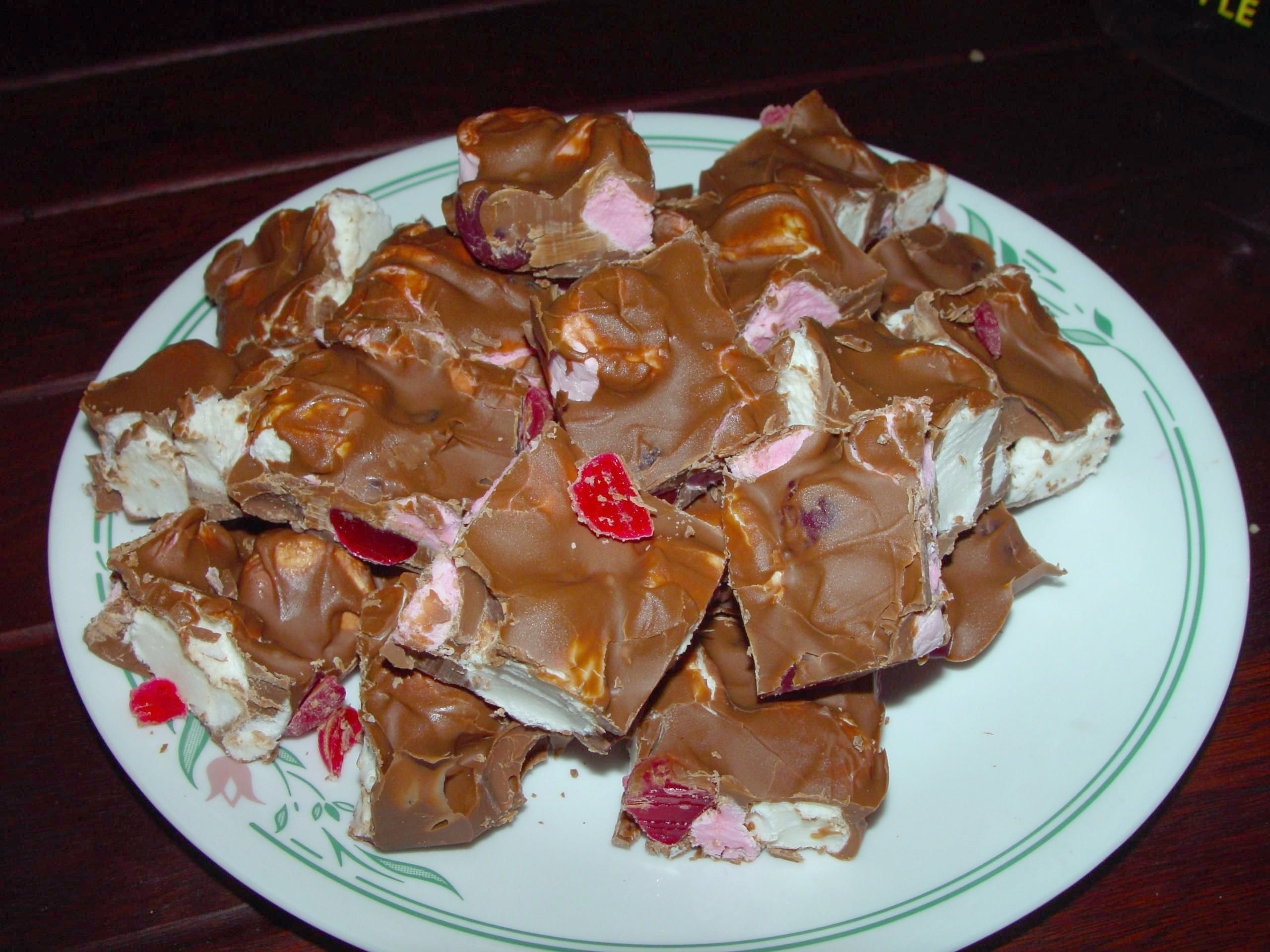 Image title: Plate with Rocky Road style dessert. Cherries with pink and white nougat covered in chocolate. Image from Public domain images website